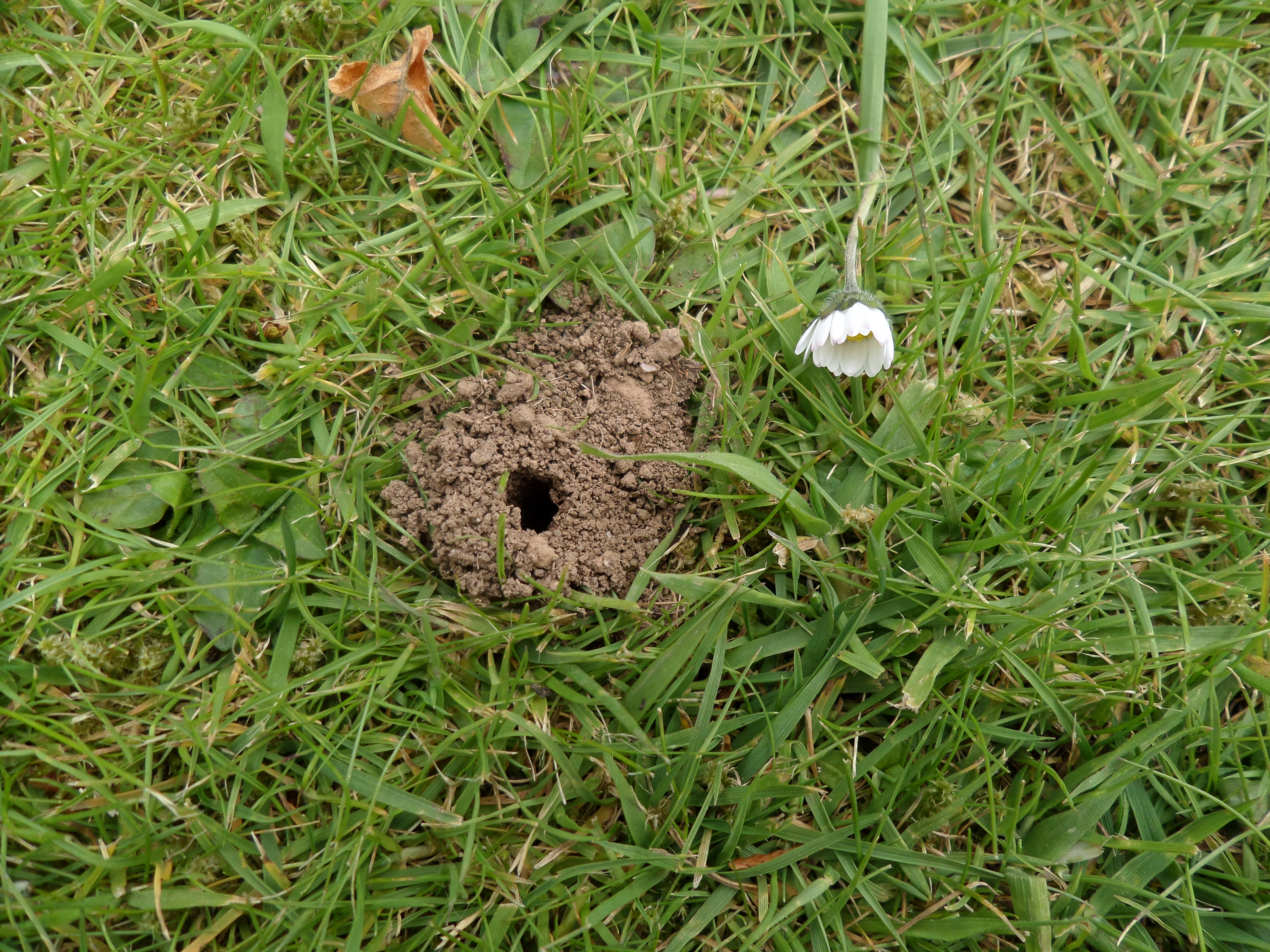 Mining Bee - entrance to the nest at Chapeltoun, Ayrshire, Scotland